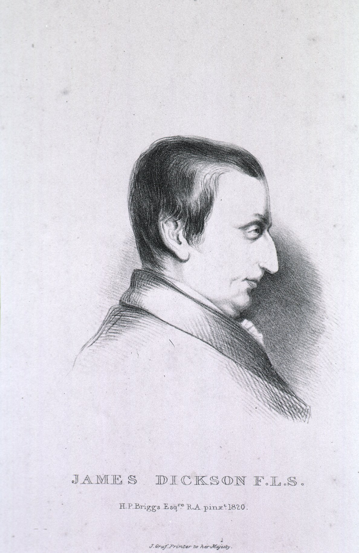 Portrait of James Dickson (1738–1822), a Scottish botanist.